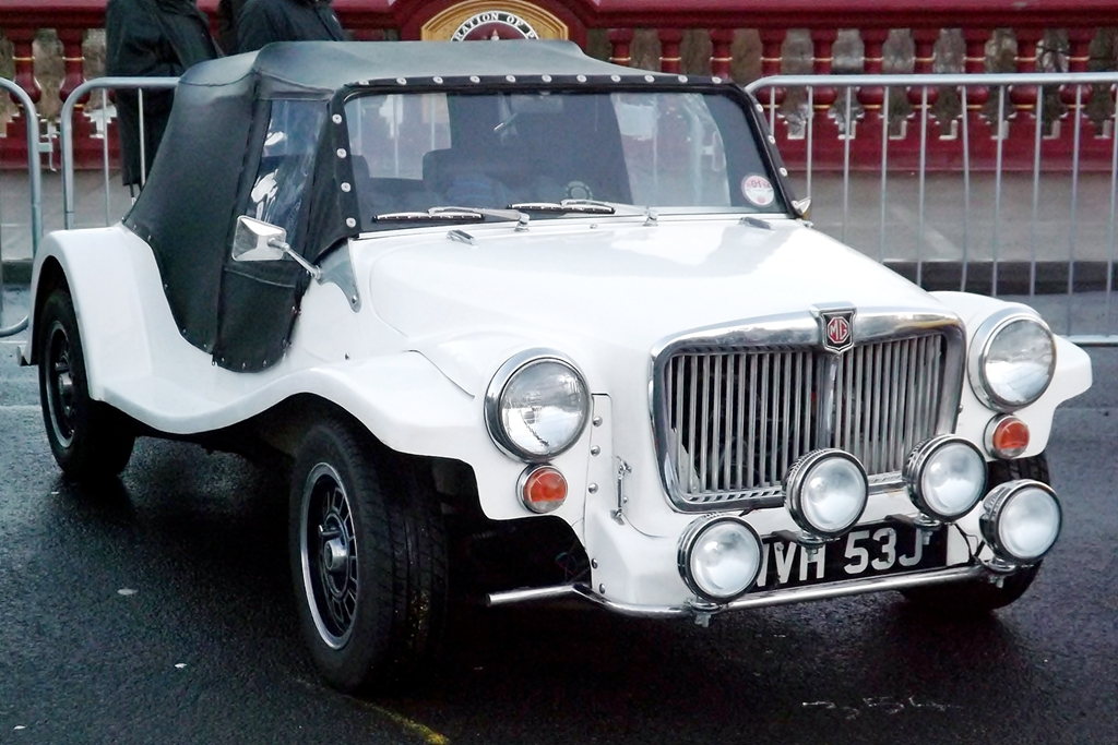 Magenta The Rallye Monte Carlo Historique XVII started from Paisley Abbey on 23rd January 2014, the only UK starting point for this event